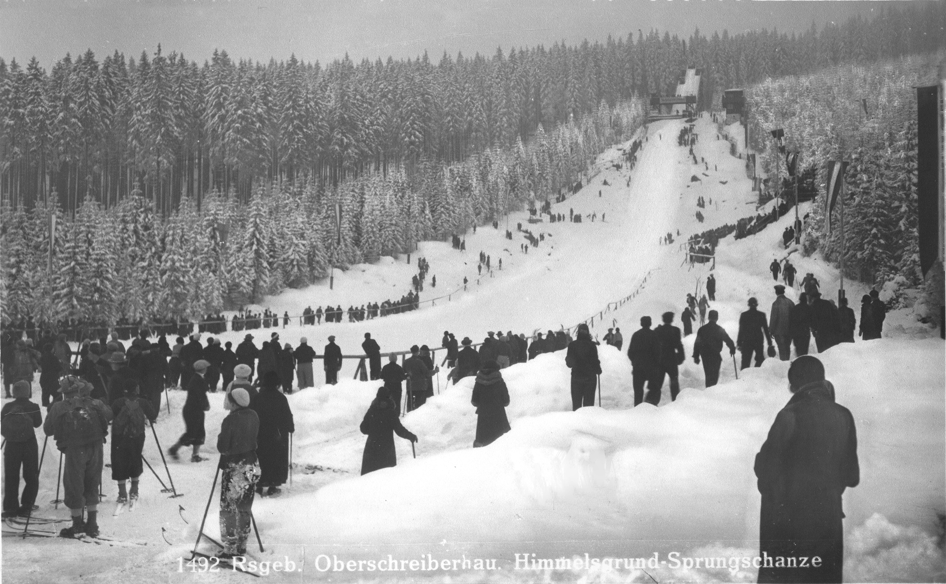 Szklarska Poreba ski jump, Germany, now Poland.